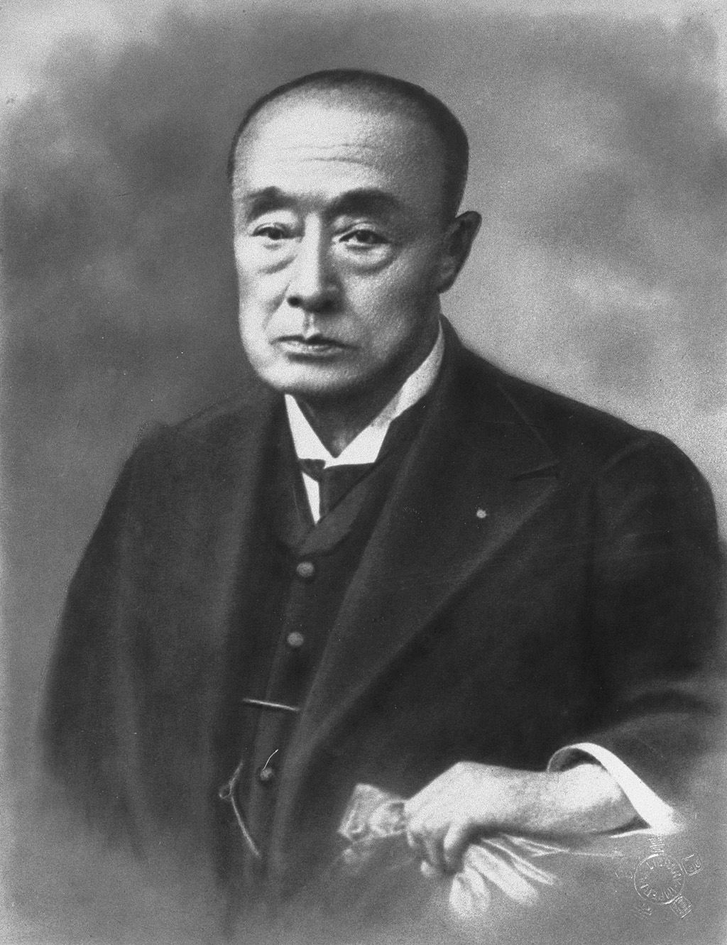 Portrait of Tokugawa Yoshinobu (徳川慶喜, 1837 – 1913)